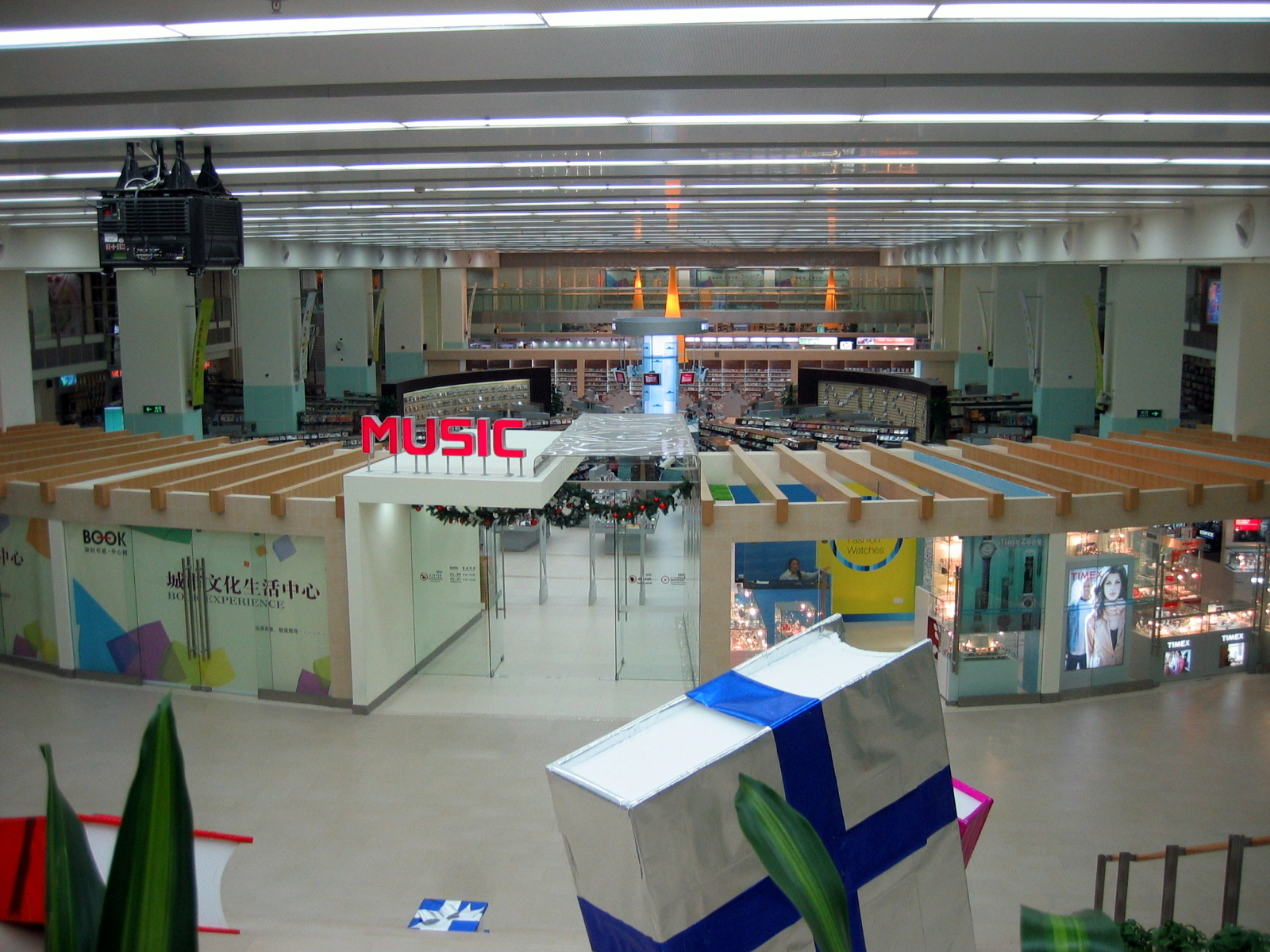 Shenzhen Book City Centre City Interior 深圳書城中心城